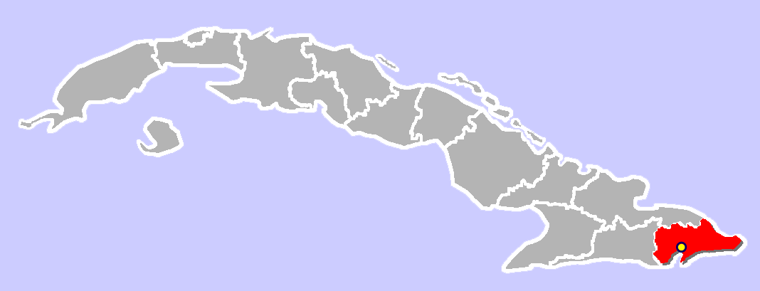 Location of Guantanamo, Cuba